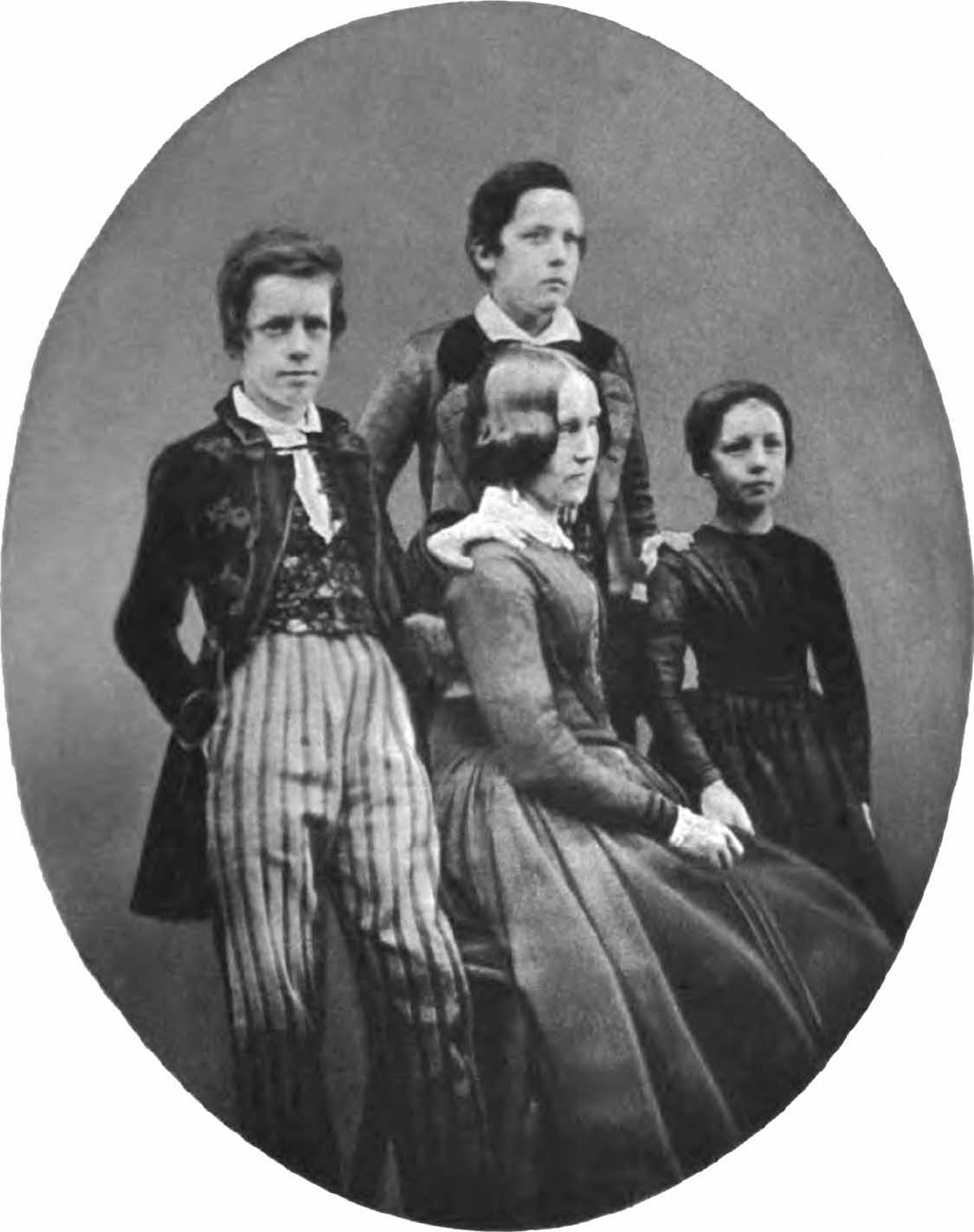 Group portrait (daguerreotype) of United States entrepreneur Henry Villard at about age 13 (left), with his mother (center), his sister Emma (right) and Uncle Robert Hilgard (above). Oval frame.